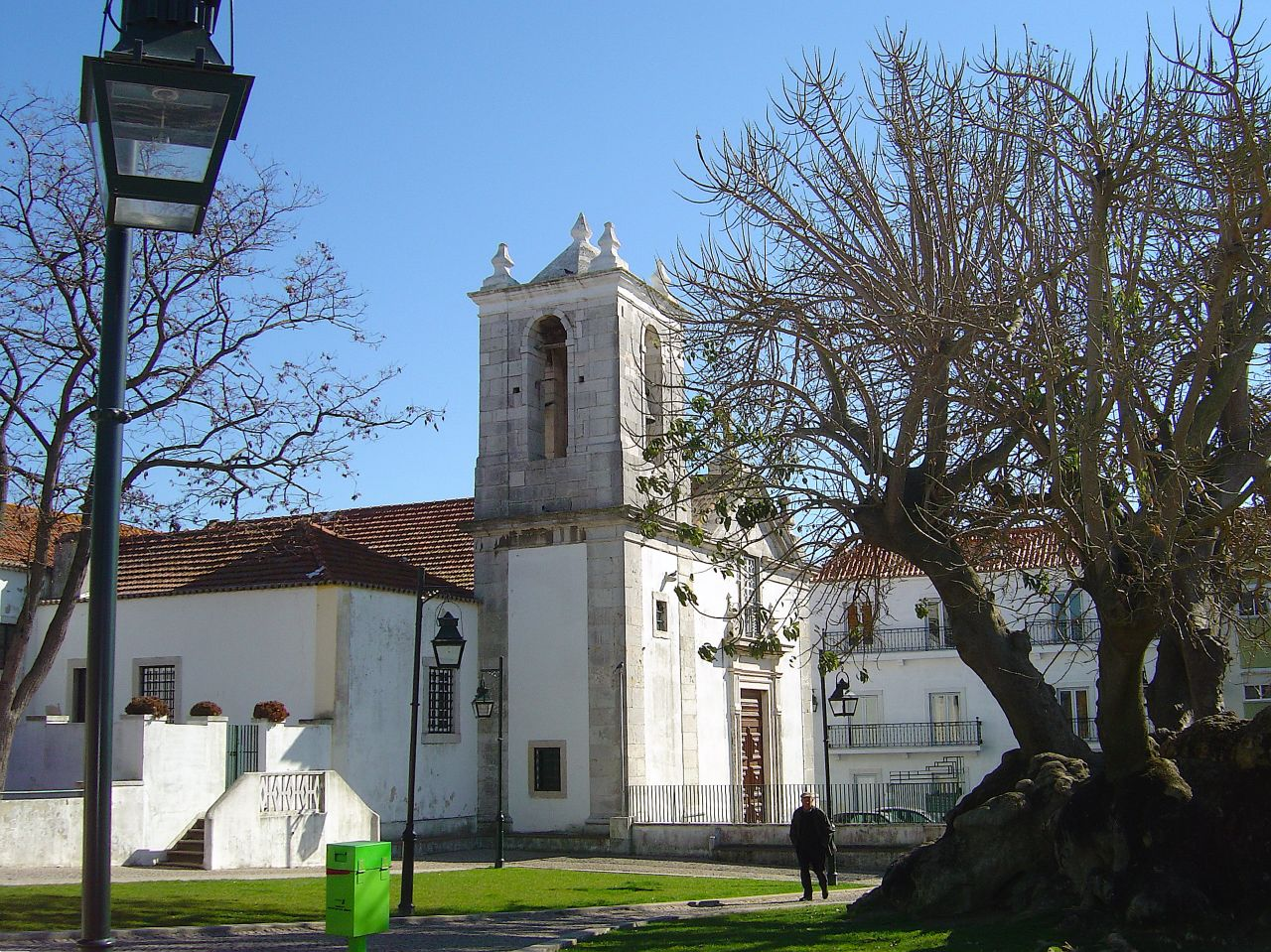 Igreja de Santiago See where this picture was taken. [?]